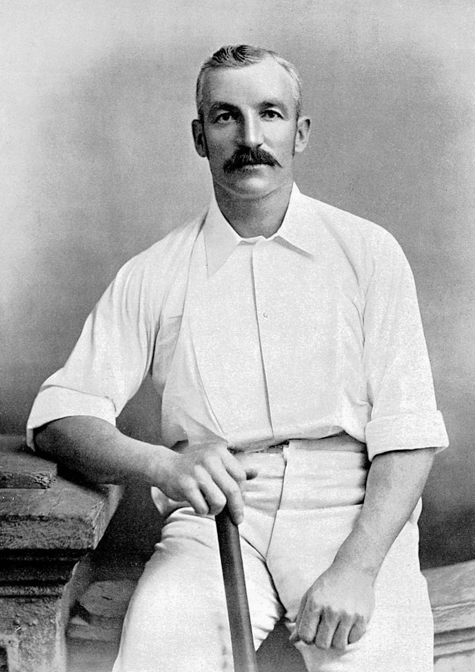 Sport, Cricket, Circa 1895, George Giffen, South Australia (1877-1904) and Australia (1881-1896)